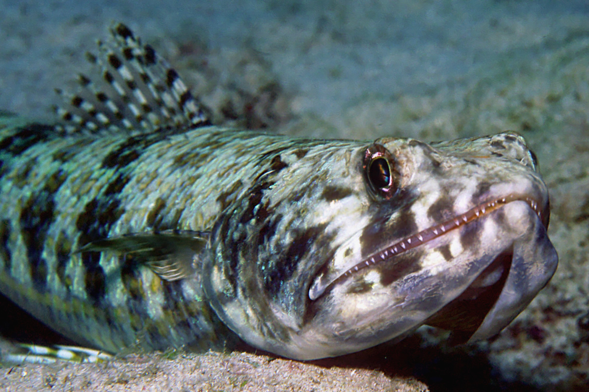 A common Sand Diver (Synodus intermedius) in Curaçao, Netherland Antilles flashes its best smile for the camera. 105mm macro lens, f/16 1/90 synch with Ikelite Ai TTL strobe. Kodachrome 64 slide film